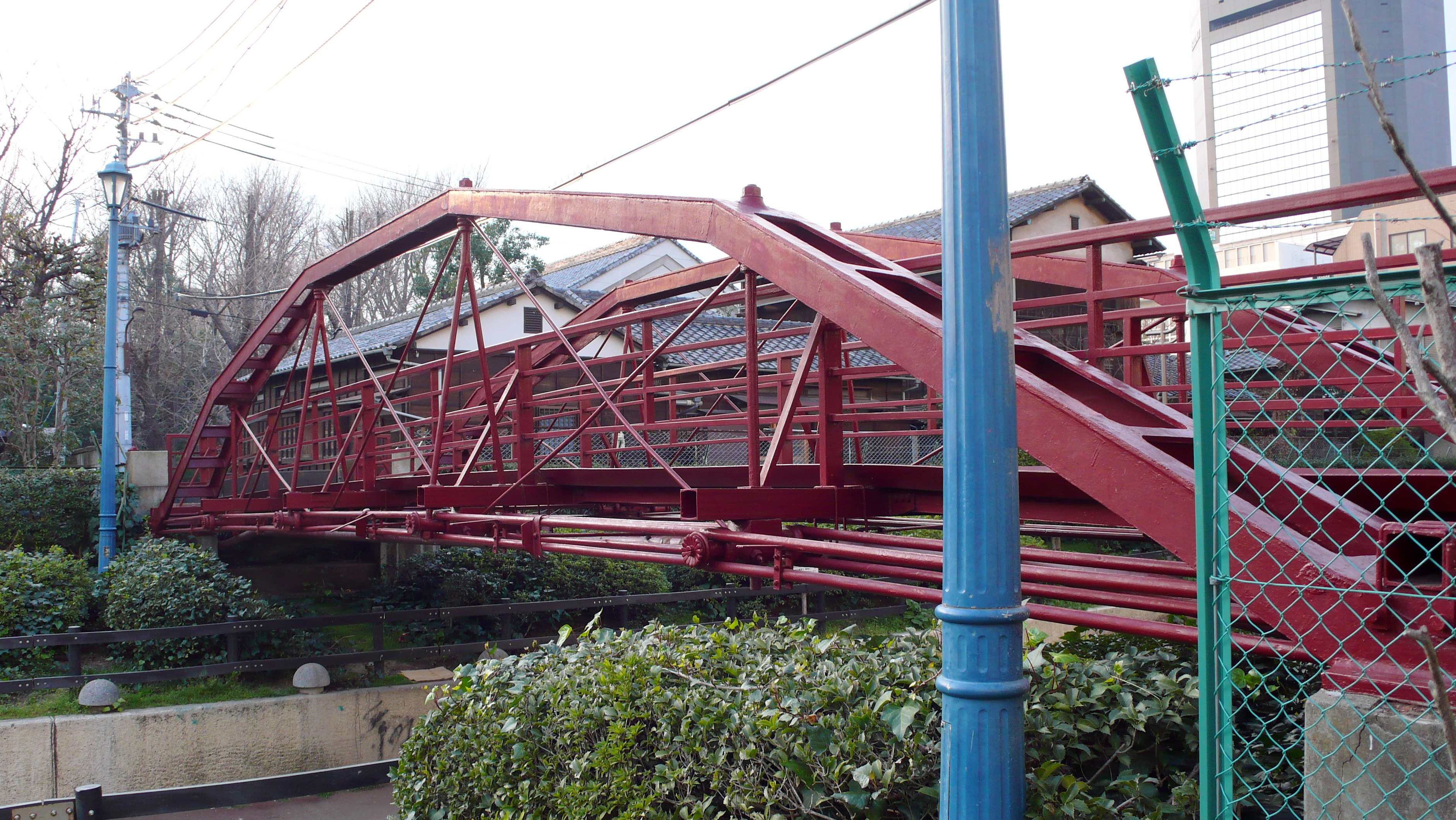 Hachiman-bashi Bridge